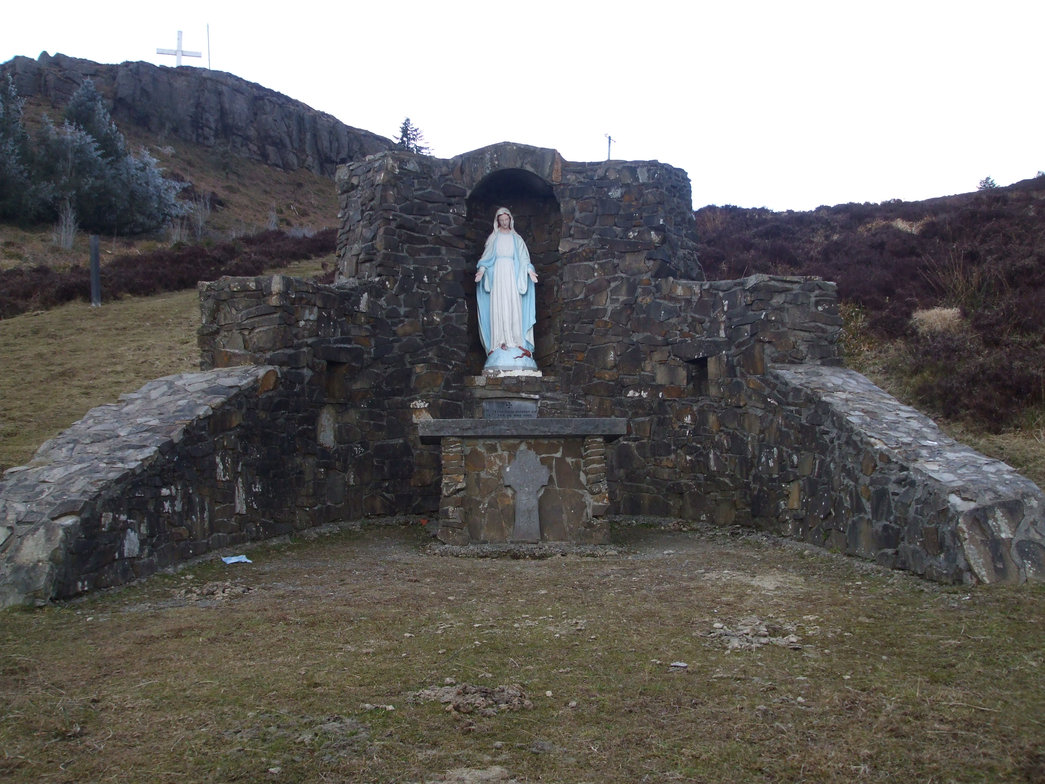 A Statue of the Virgin Mary at Devil's Bit Mountain,Co. Tipperary,Ireland